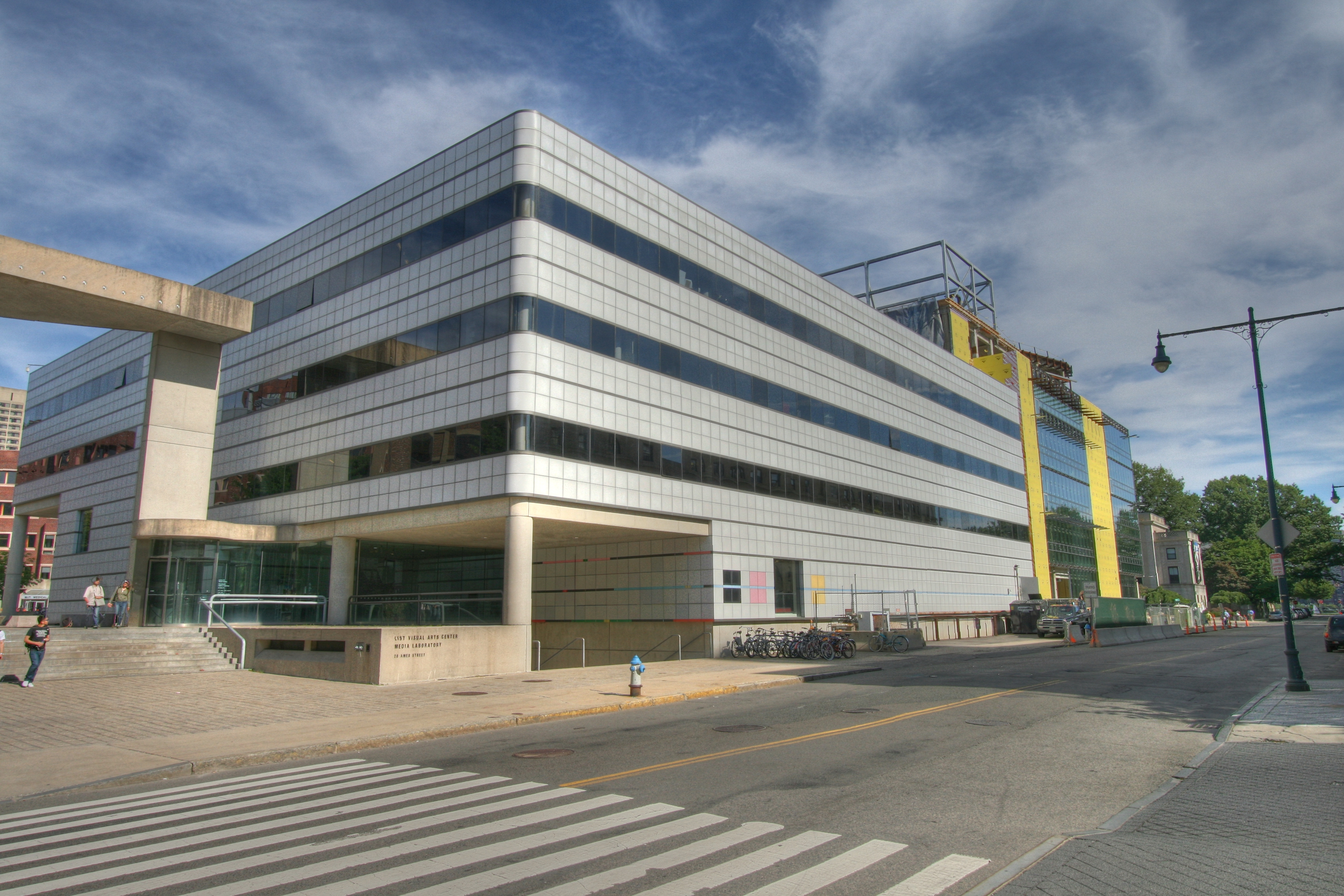 MIT's Media Laboratory and expansion under construction